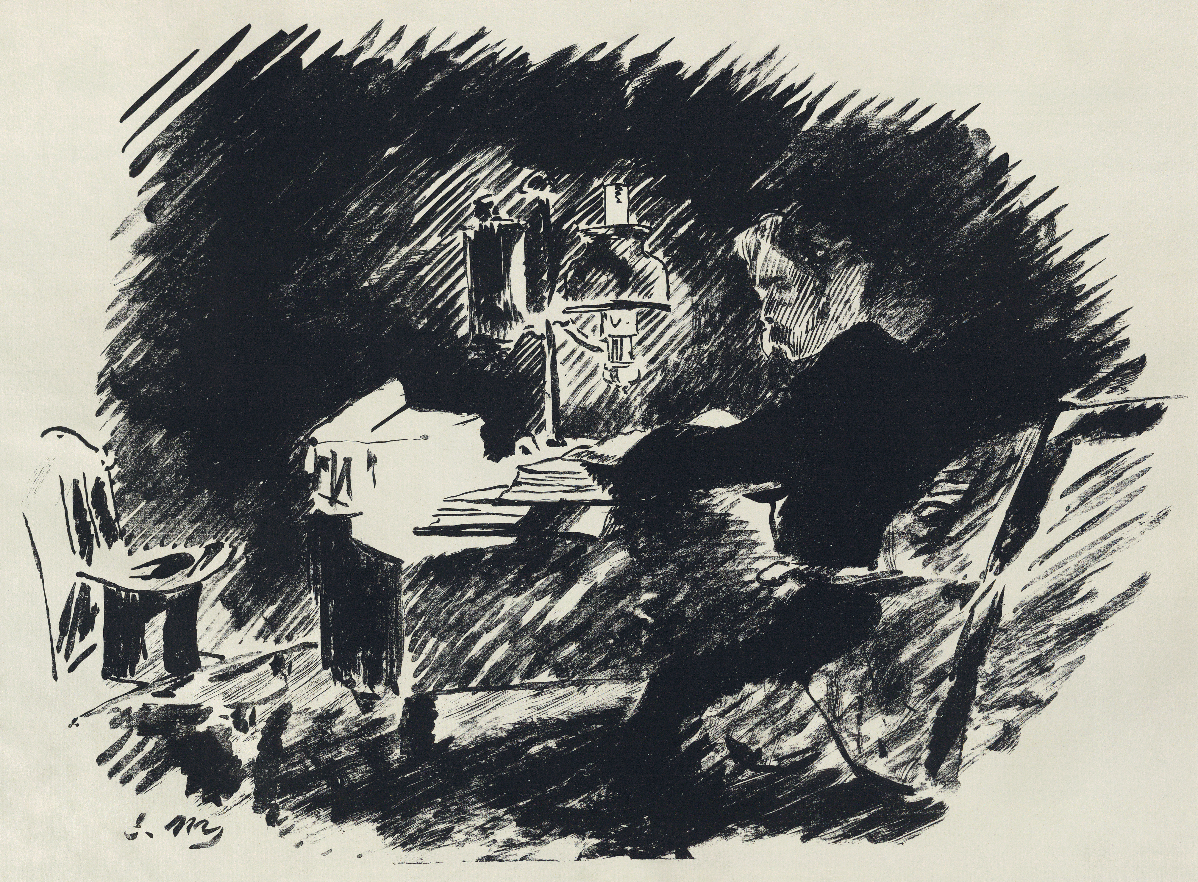 Illustration by Édouard Manet for a French translation by Stéphane Mallarmé of Edgar Allan Poe's "The Raven". Part 1 of 4 full page plates (two smaller illustrations at beginning and end omitted).